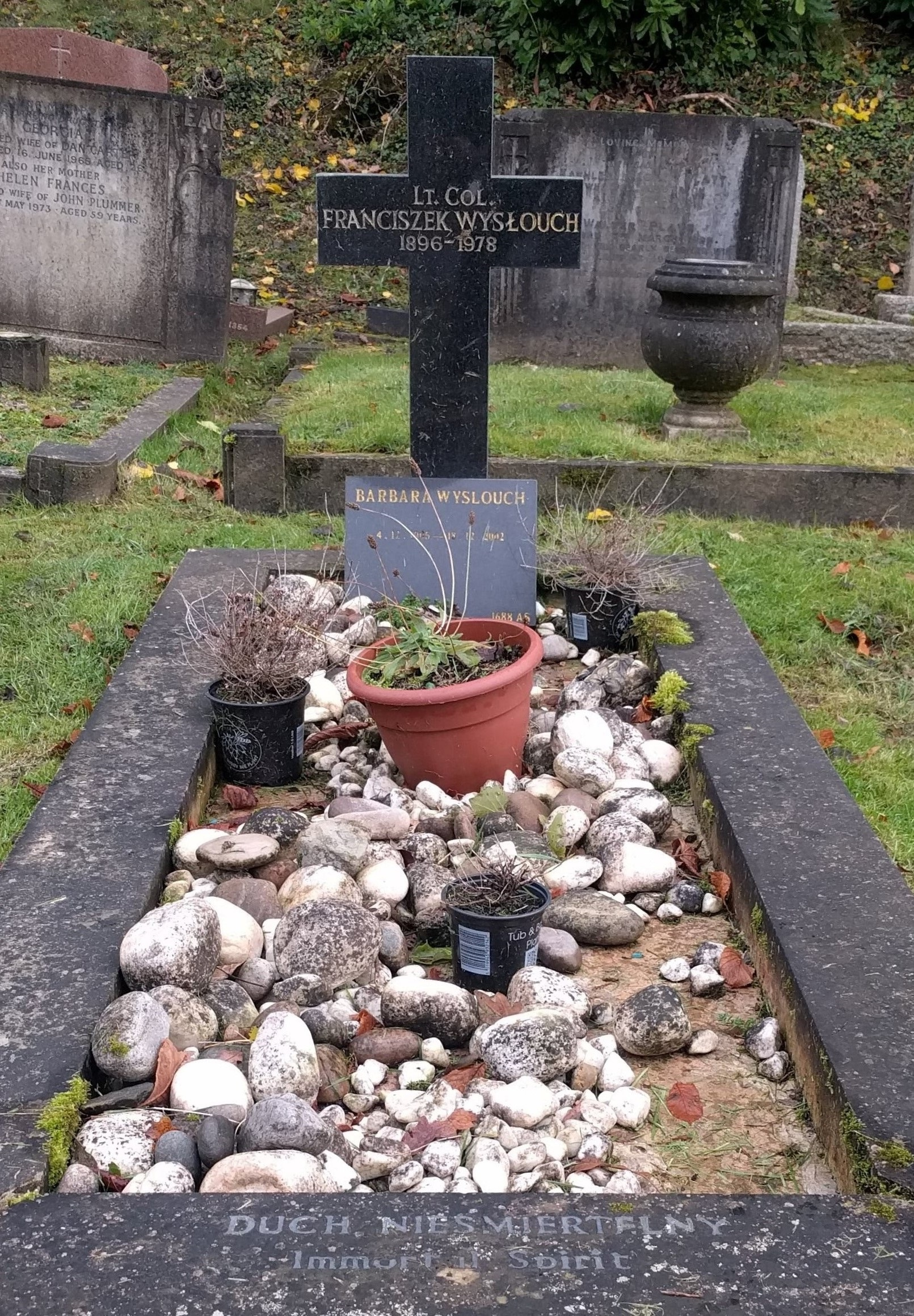 Grave of Franciszek Marian Wysłouch and wife Barbara née Jeżewski. Putney Vale Cemetery London. Franciszek Wysłouch, (1896 - 1978), Infantry Colonel, 1939-45 War.